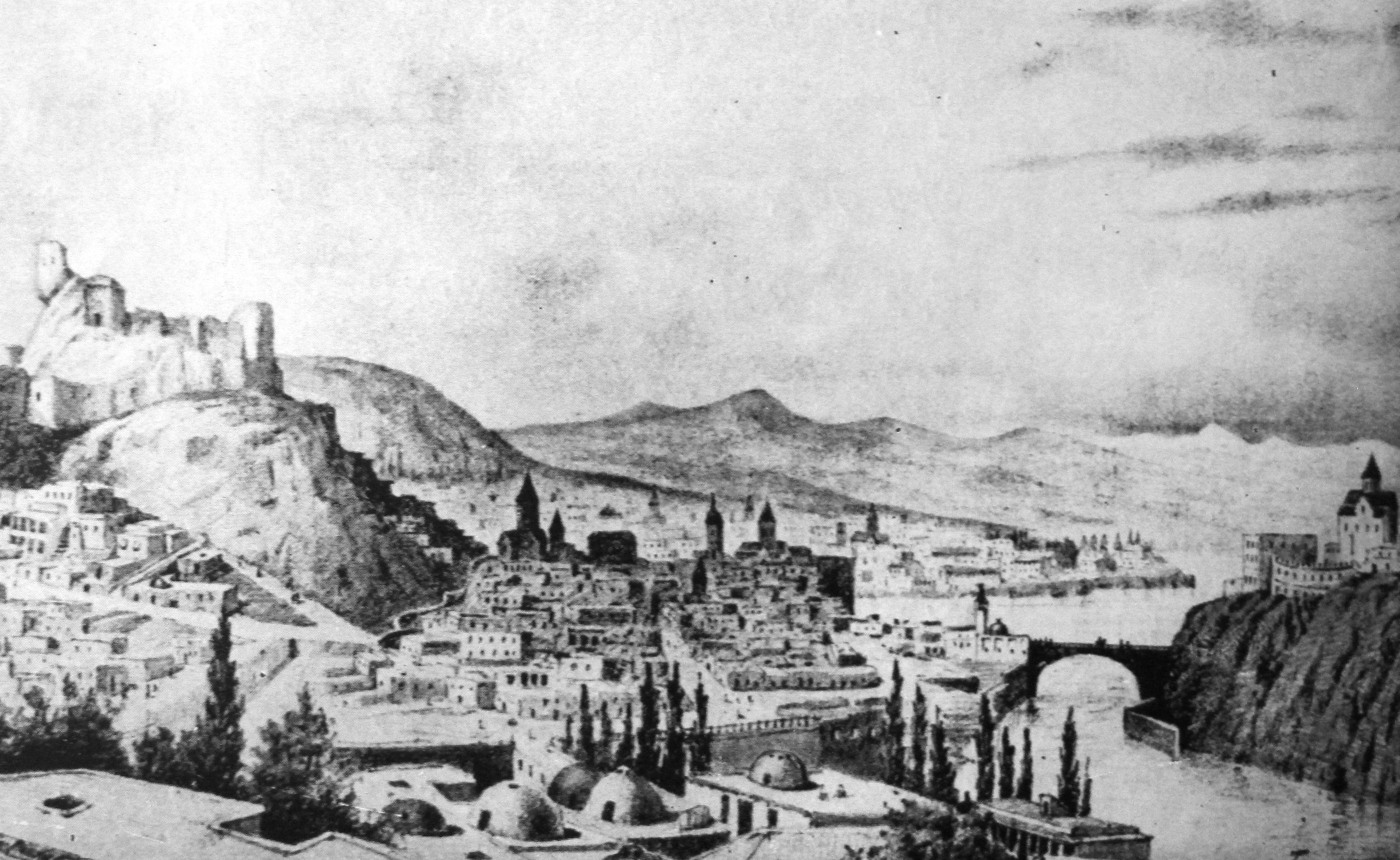 Henryk Hrynievski. View of Old Tbilisi in 1829